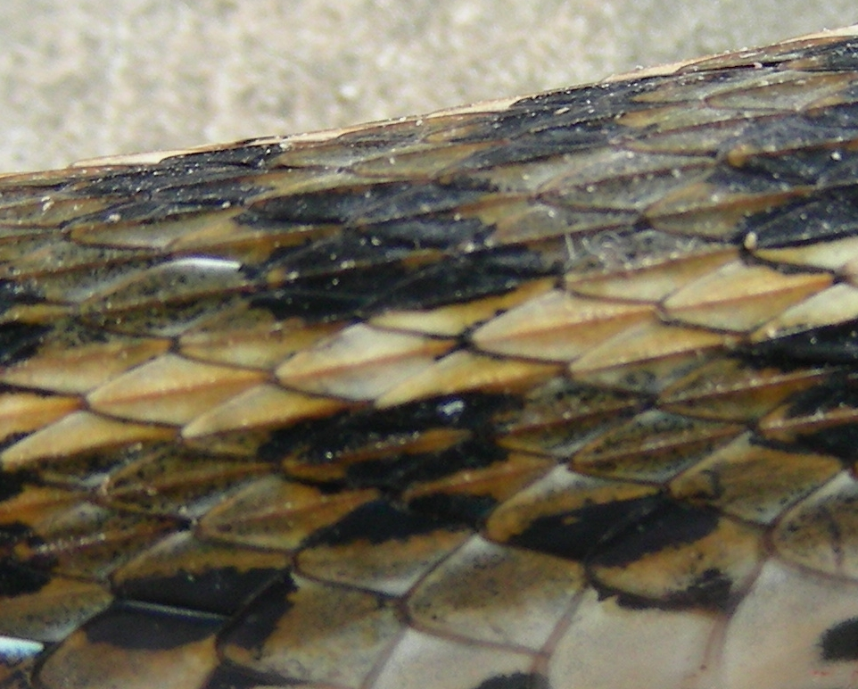 Close up of keeled scales. Buff-striped Keelback, Amphiesma stolatum, Family Colubridae, Serpentes. Photographed in Binnaguri, Northern West Bengal, India.